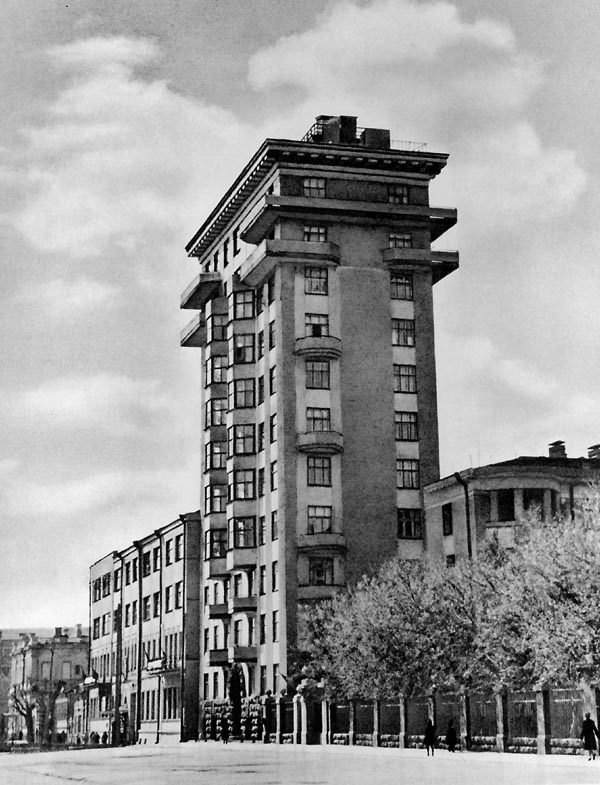 Sverdlovsk, Housing; Architect: ??; Year: 1932